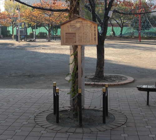 Tsugaru-no-taiko (Sumida, Tokyo, Japan)